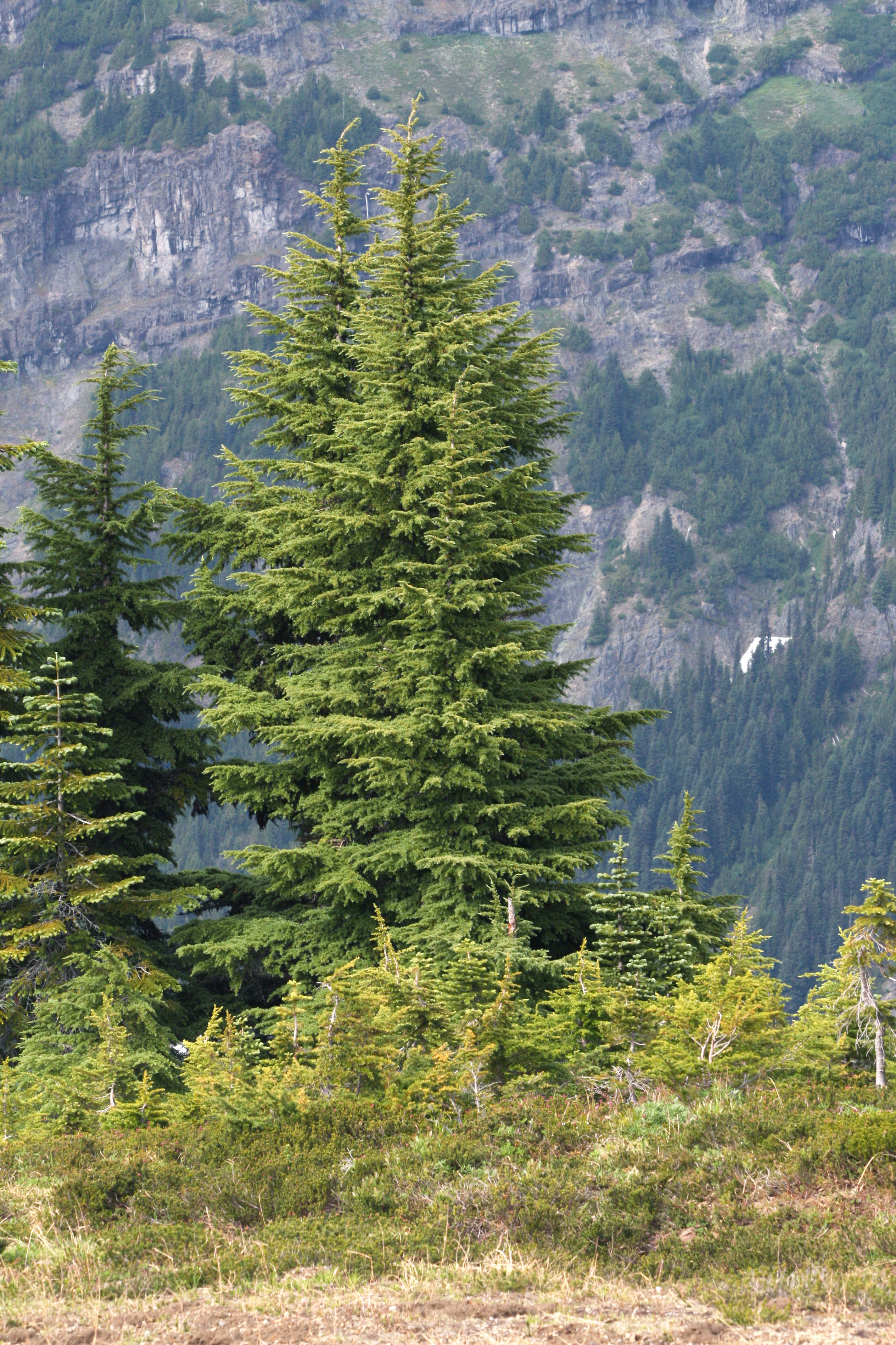 Mountain Hemlock with small Abies lasiocarpa in front